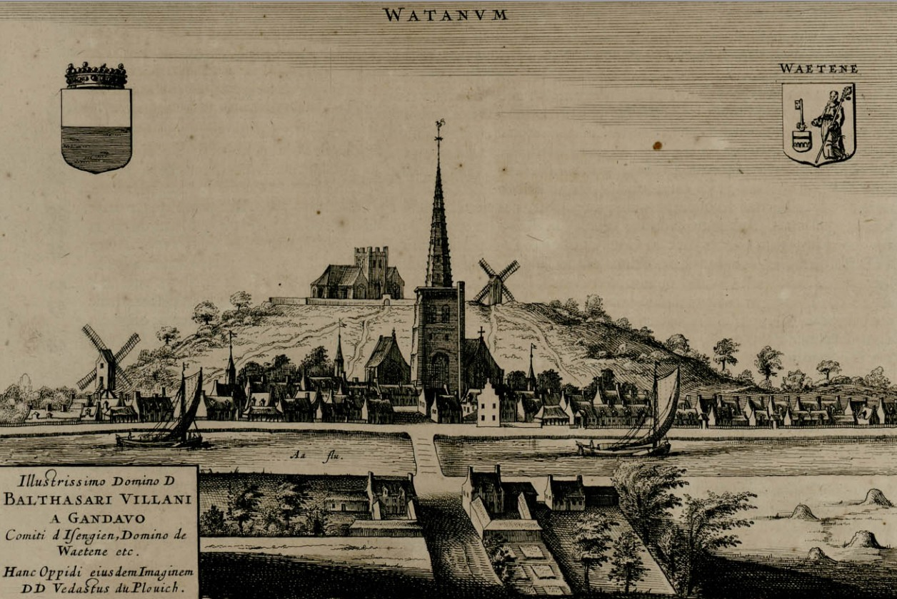 Watanum (1662), Sanderus, Flandria Illustrata